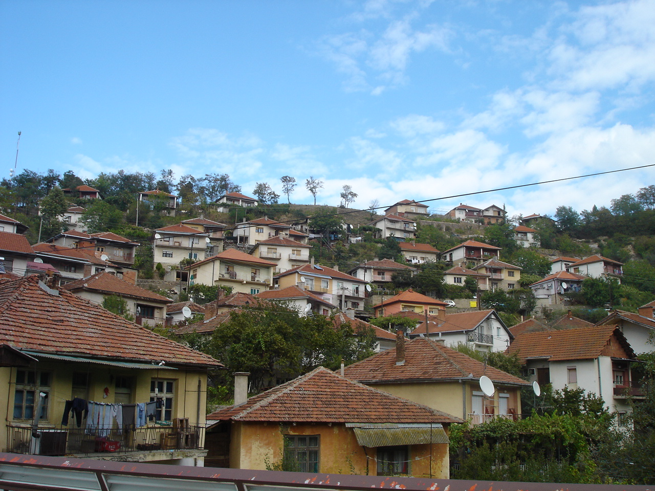 Kratovo, Macedonia